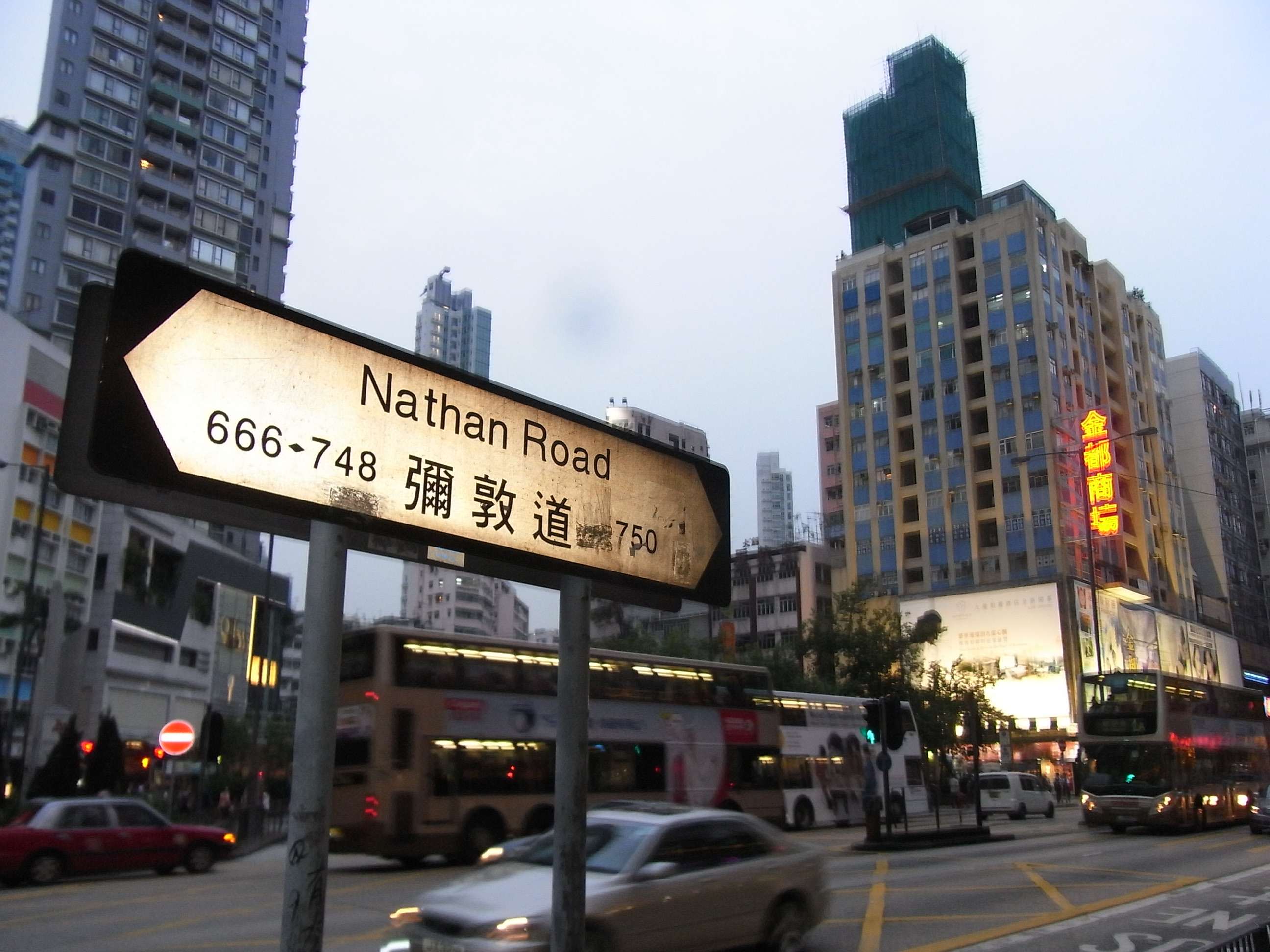 Evening in Nathan Road, Mongkok, Hong Kong